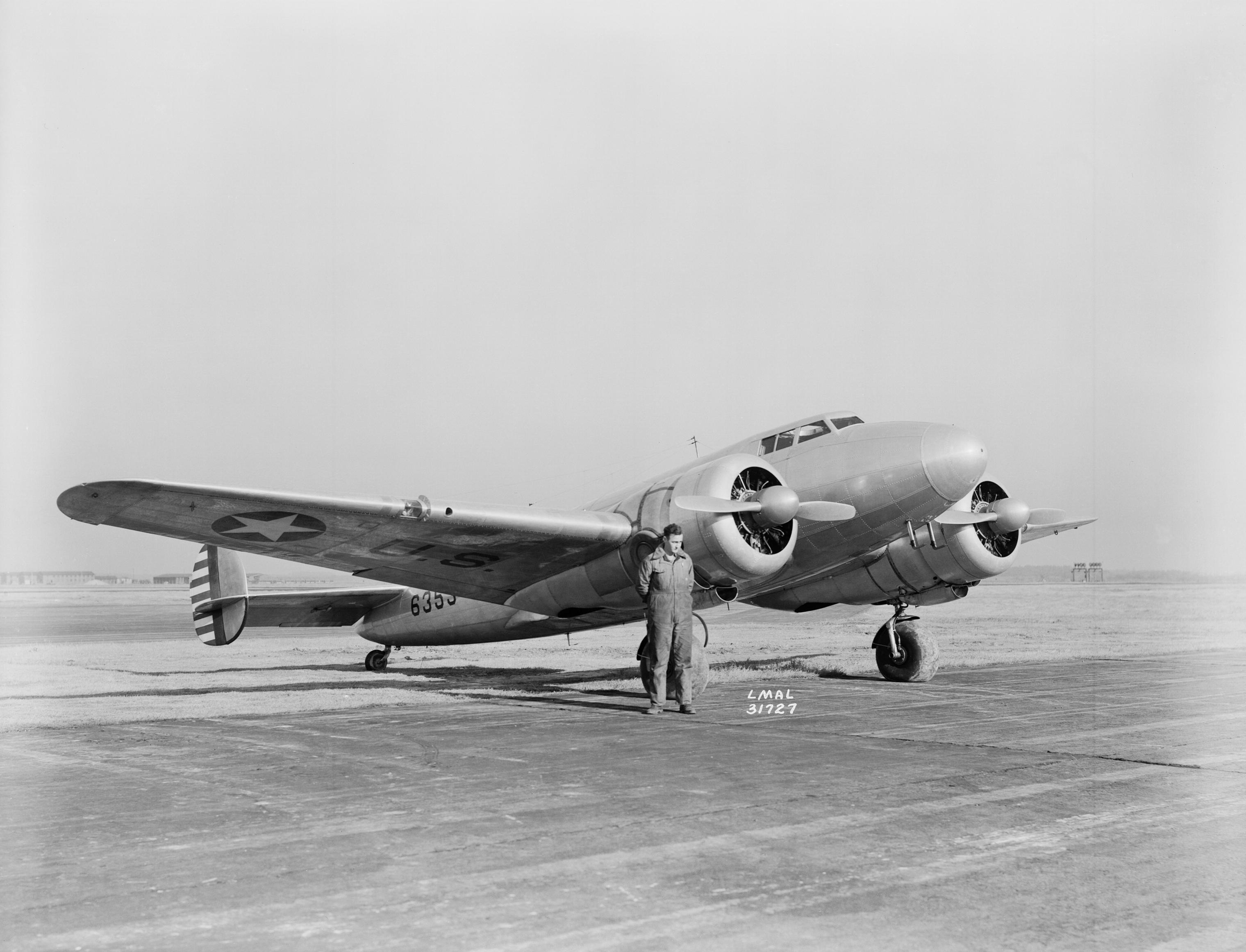 The Lockheed XC-35, the first American aircraft with a pressurized cabin. NACA pilot Herbert H. Hoover intentionally flew the XC-35 into thunderstorms to gather data on the effects of severe weather on aircraft. These flights were following years later by further studies at Langley Research Center conducted with a Convair F-106 and a Learjet.